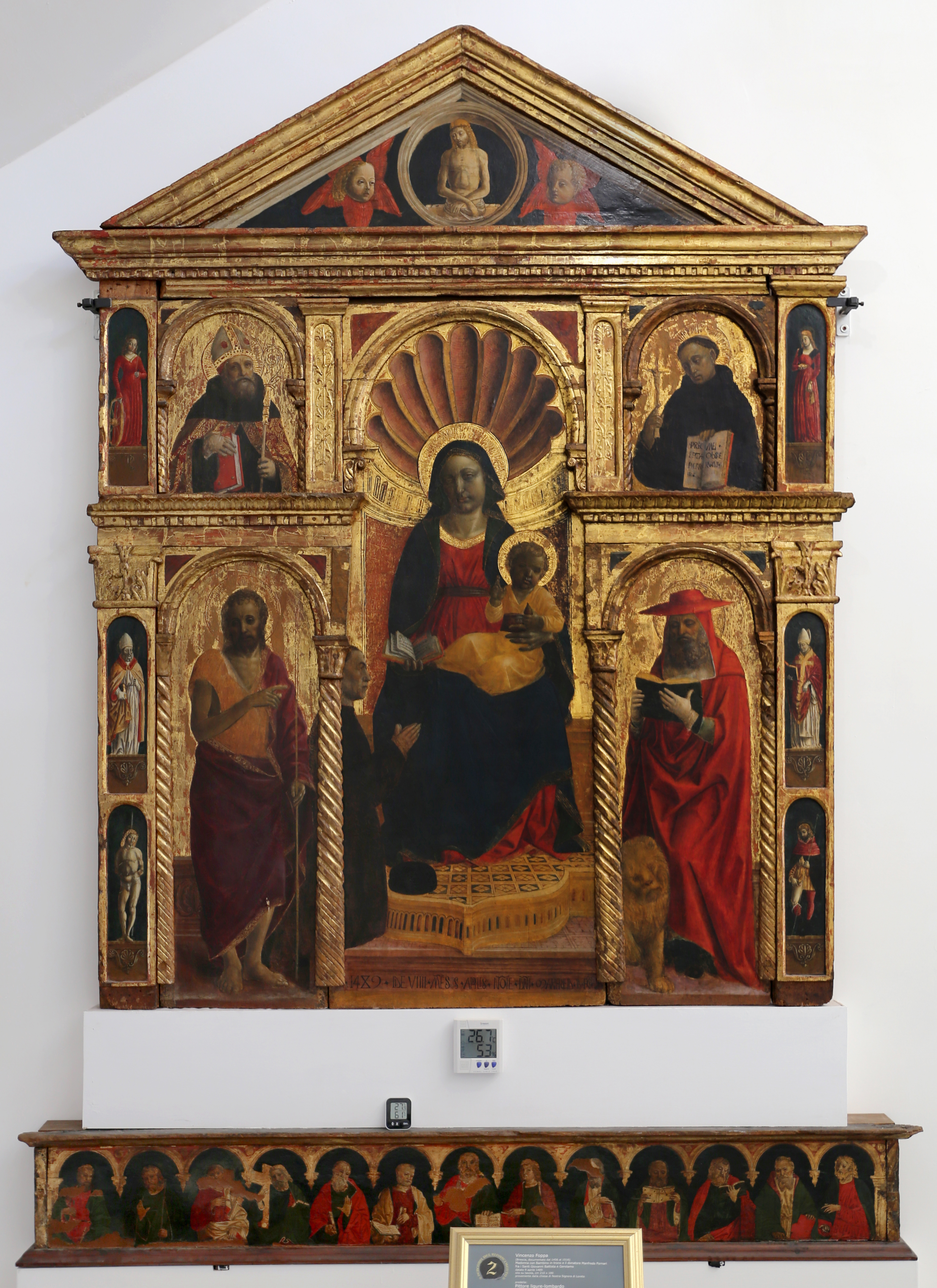 Museo d'arte di Palazzo Gavotti